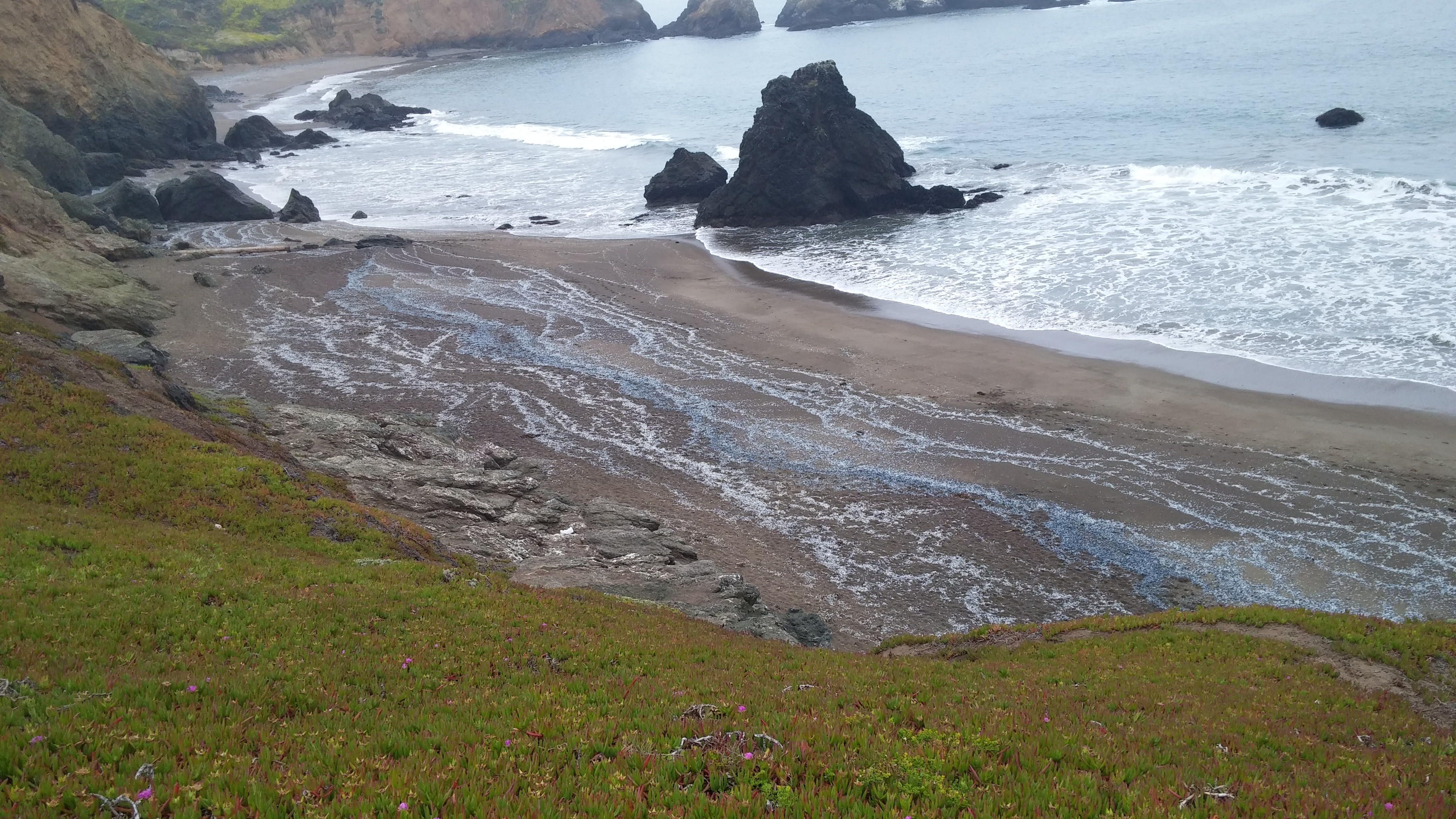 Vellela (By-the-wind Sailors) stranded on Rodeo Beach, Marin County, California.